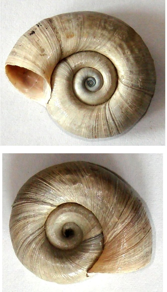 Planorbarius corneus